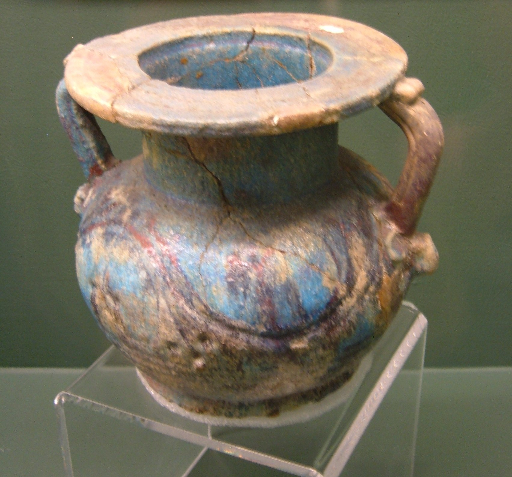 Glazed pottery vessel made of faience (Roman Period) on display at the Rosicrucian Egyptian Museum in San Jose, California. RC 1745